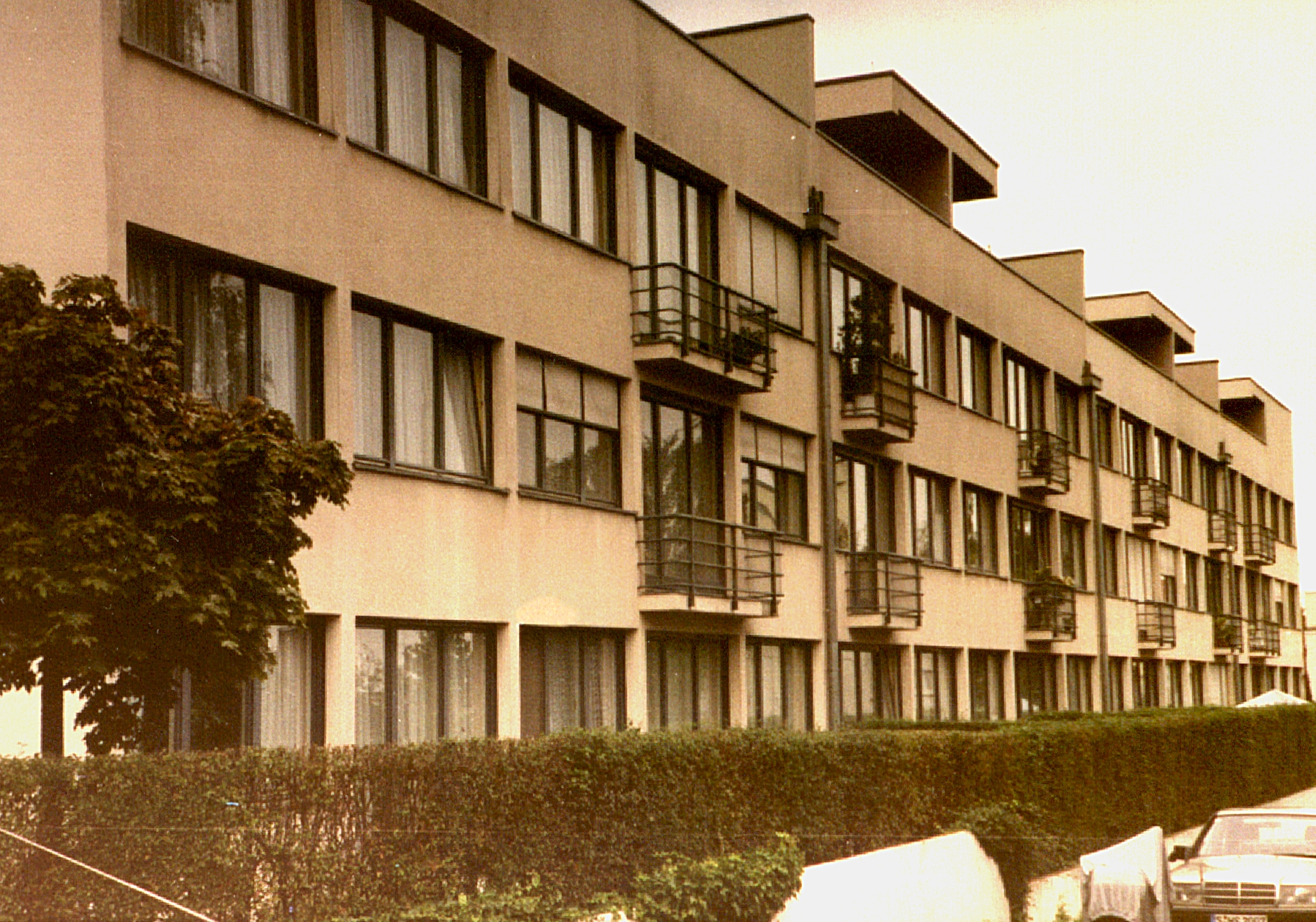 Stuttgart-Weissenhof, Germany House by Ludwig Mies van der Rohe, 1927. International style. analogue photography taken by shaqspeare, September 2001, scanned 2005 GFDL